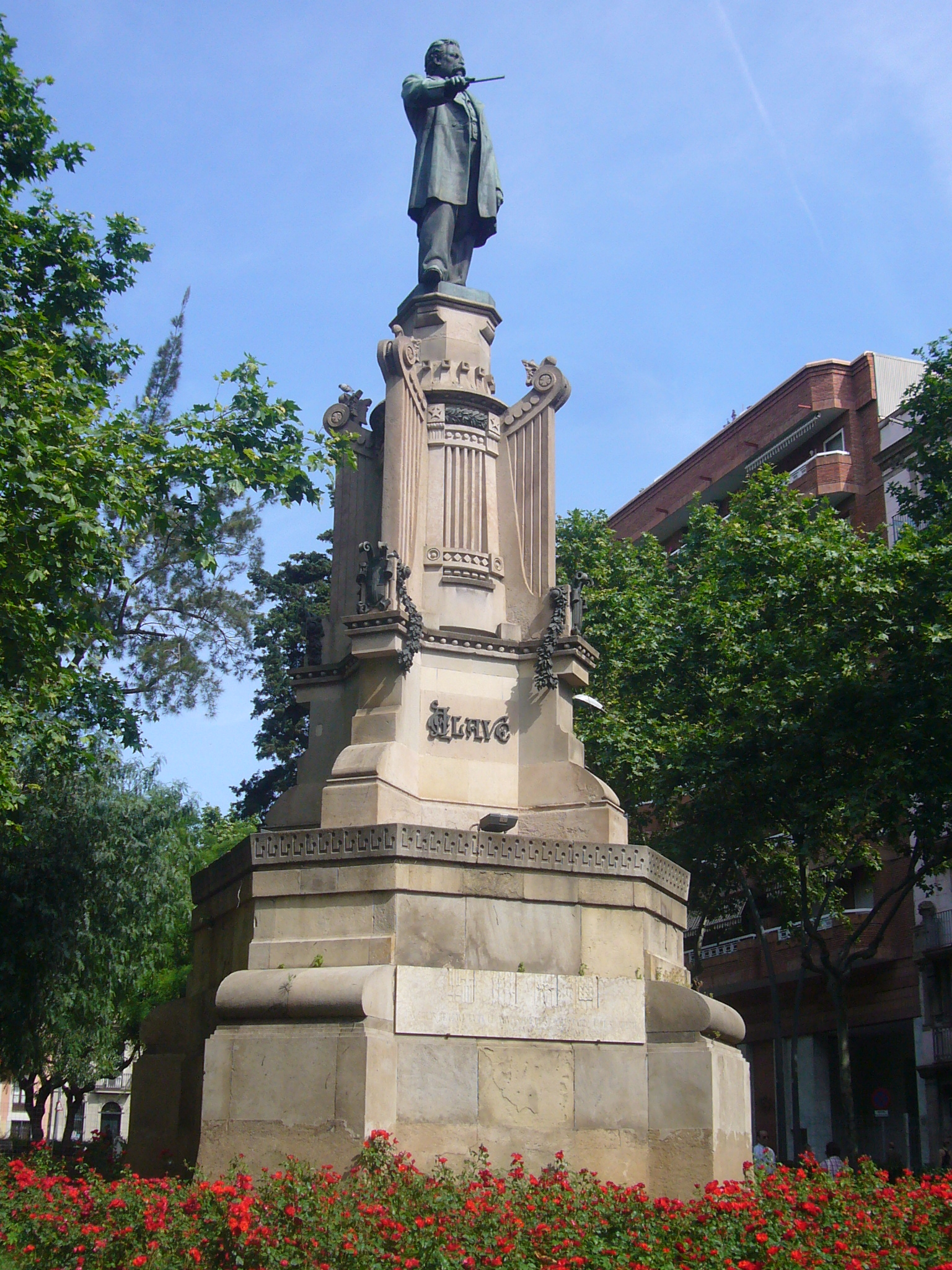 Monument to Josep Anselm Clavé, located in Passeig de Sant Joan, Barcelona. Was built in 1888 by the sculptor Manel Fuxà i Leal and the architect Josep Vilaseca i Casanovas